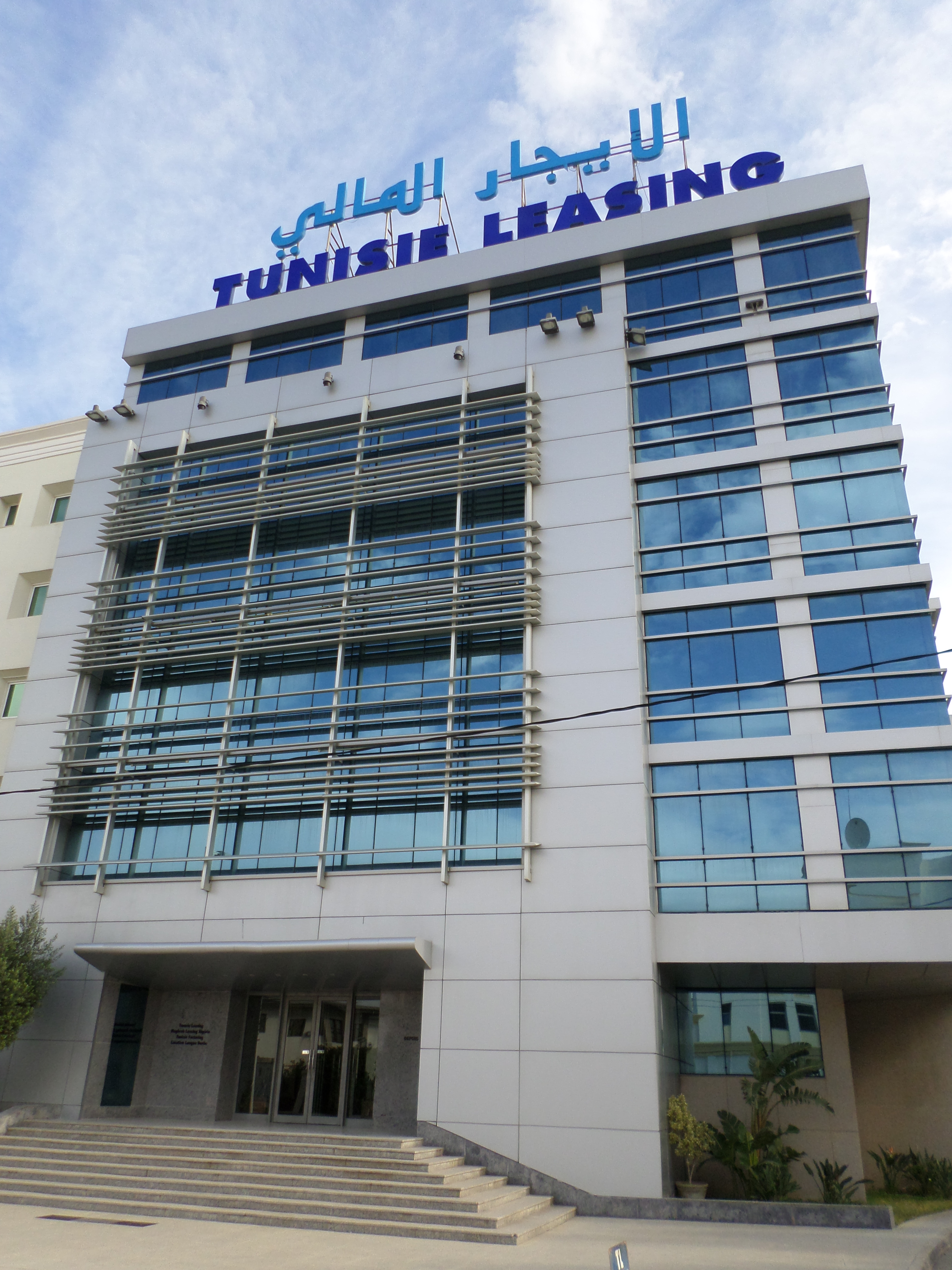 Tunisie Leasing company headquarters